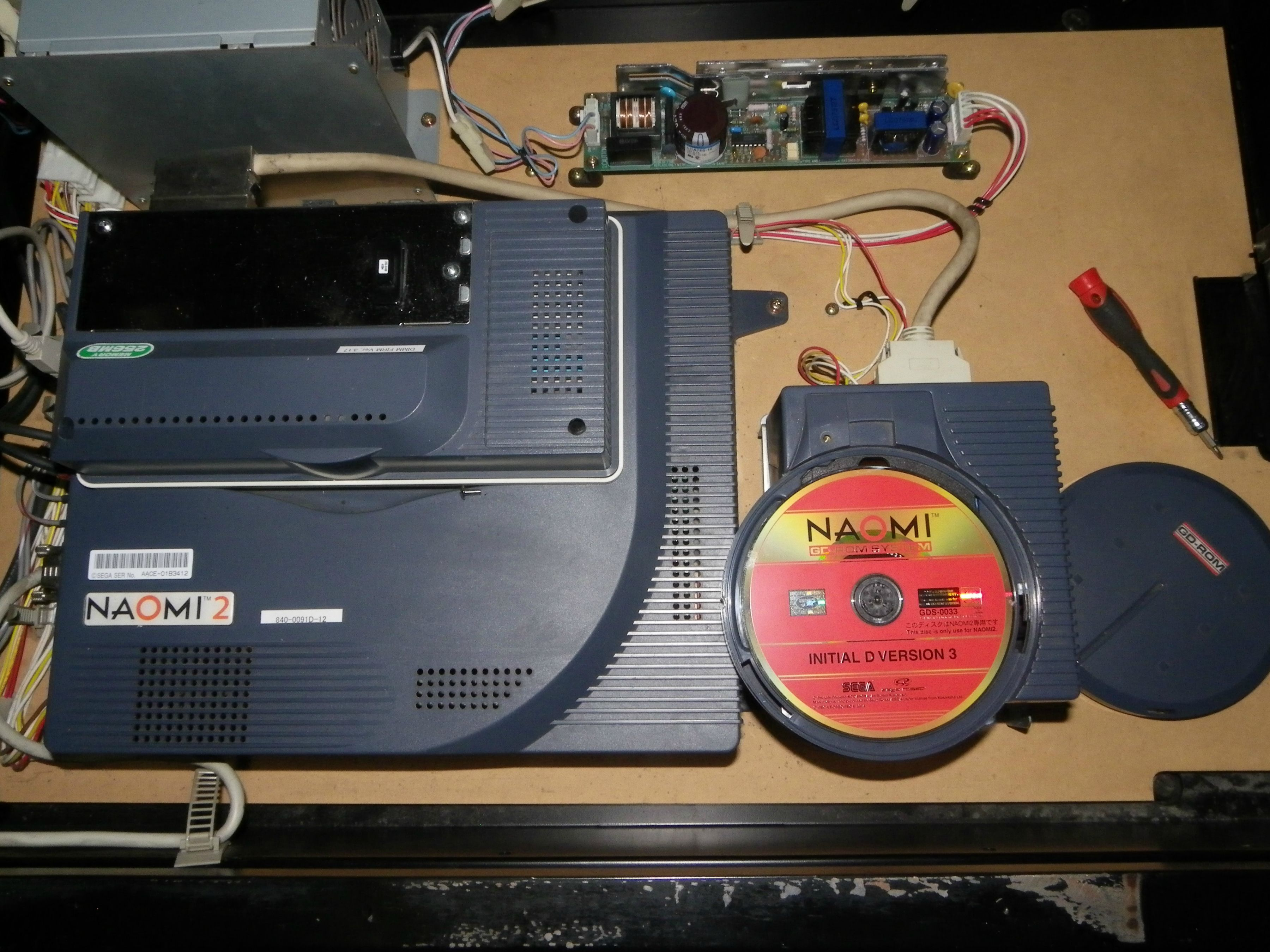 Sega Naomi 2 Gaming System